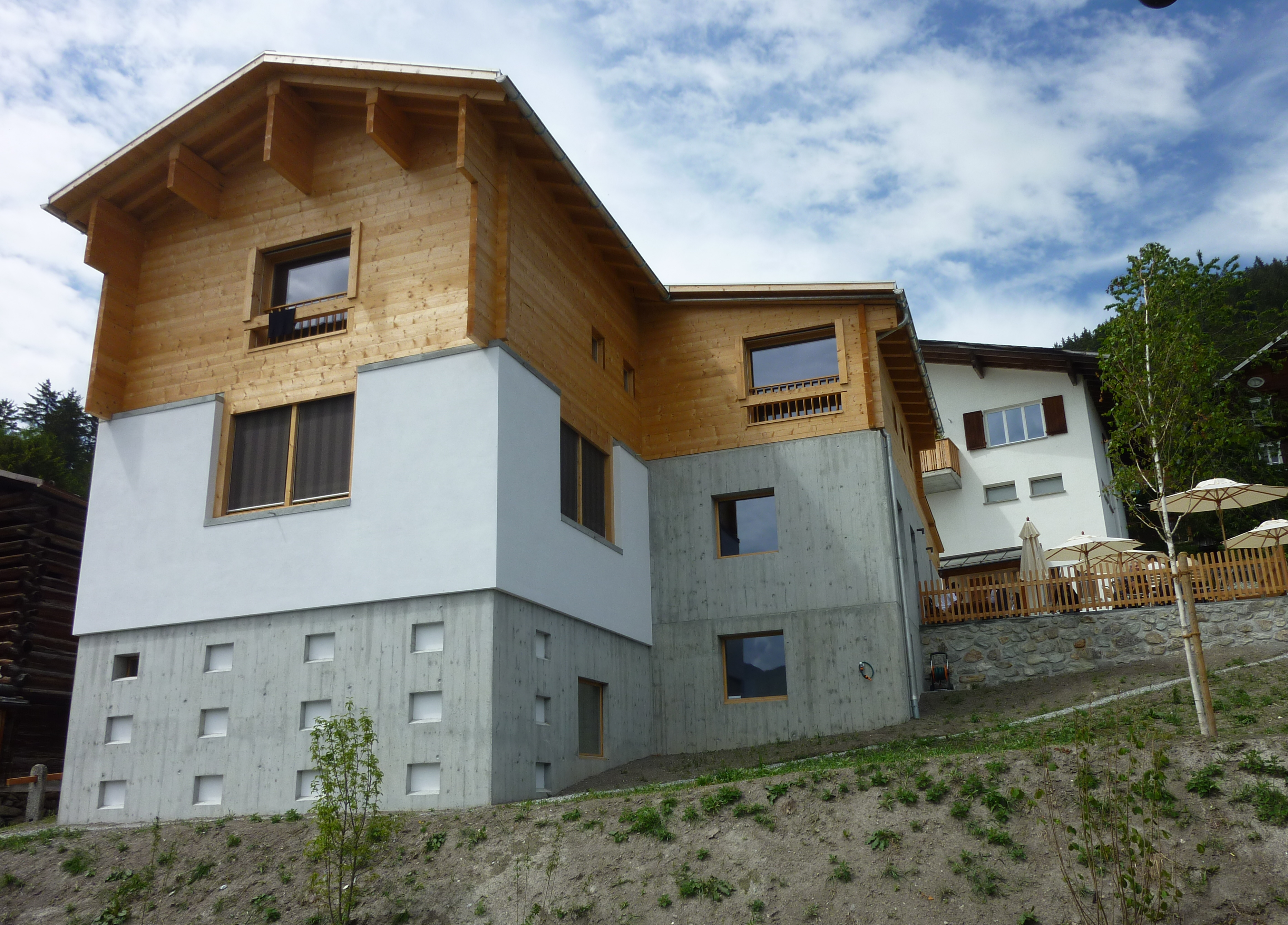 Ustria Steila in Siat, Architekt: Gion A. Caminada